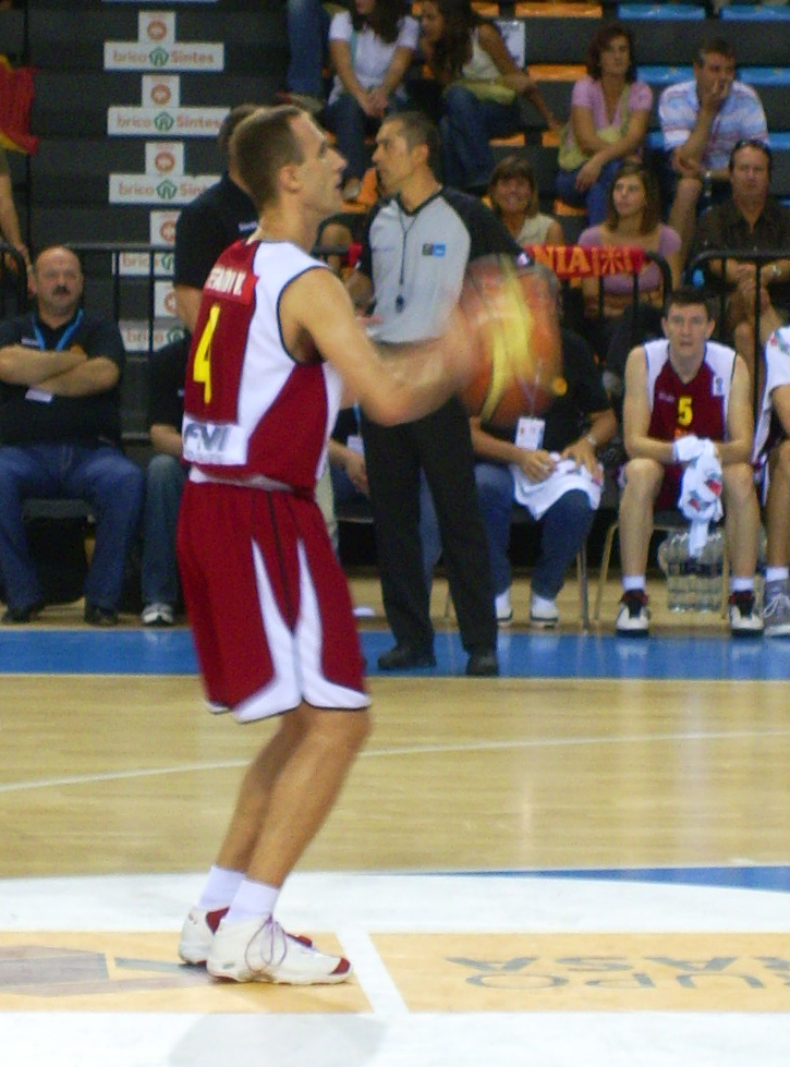 Vrbica Stefanov. PreEuropean Championship. Menorca.